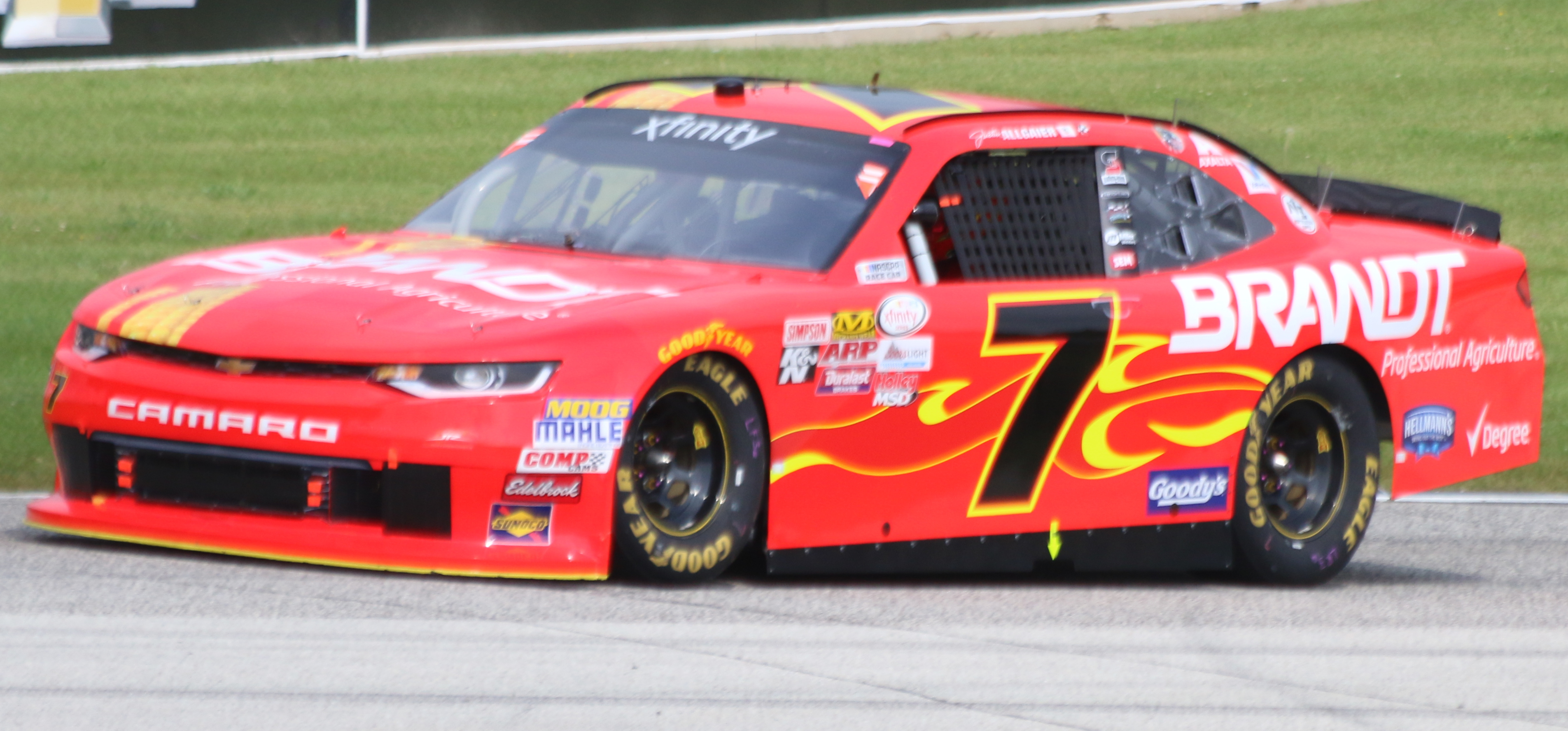 The Chevrolet Camaro of Justin Allgaier at the NASCAR Xfinity Series Johnsonville 180.